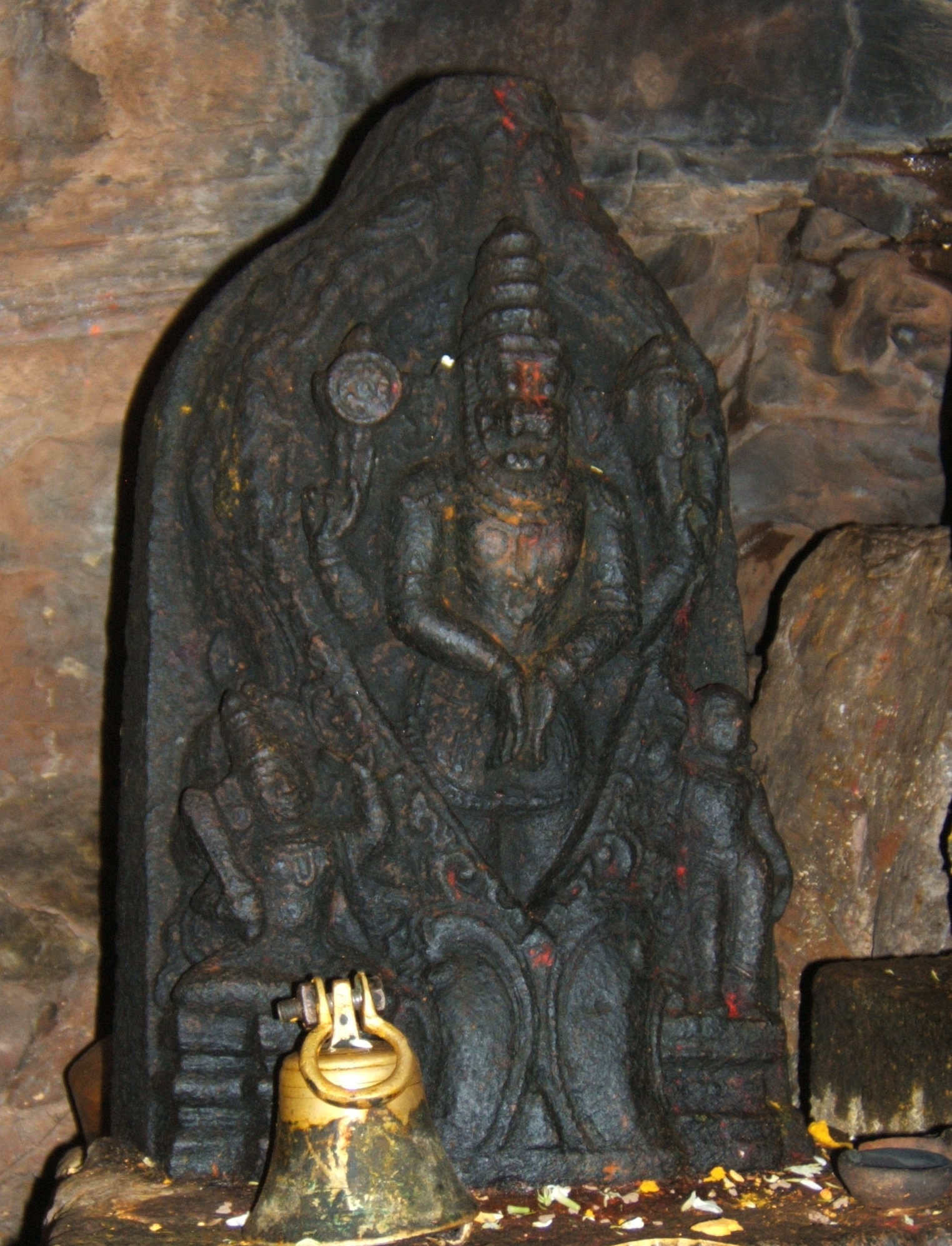 Narasimha emerging from the pillar Jwala Narasimha cave temple in Ahobilam, Andhra Pradesh